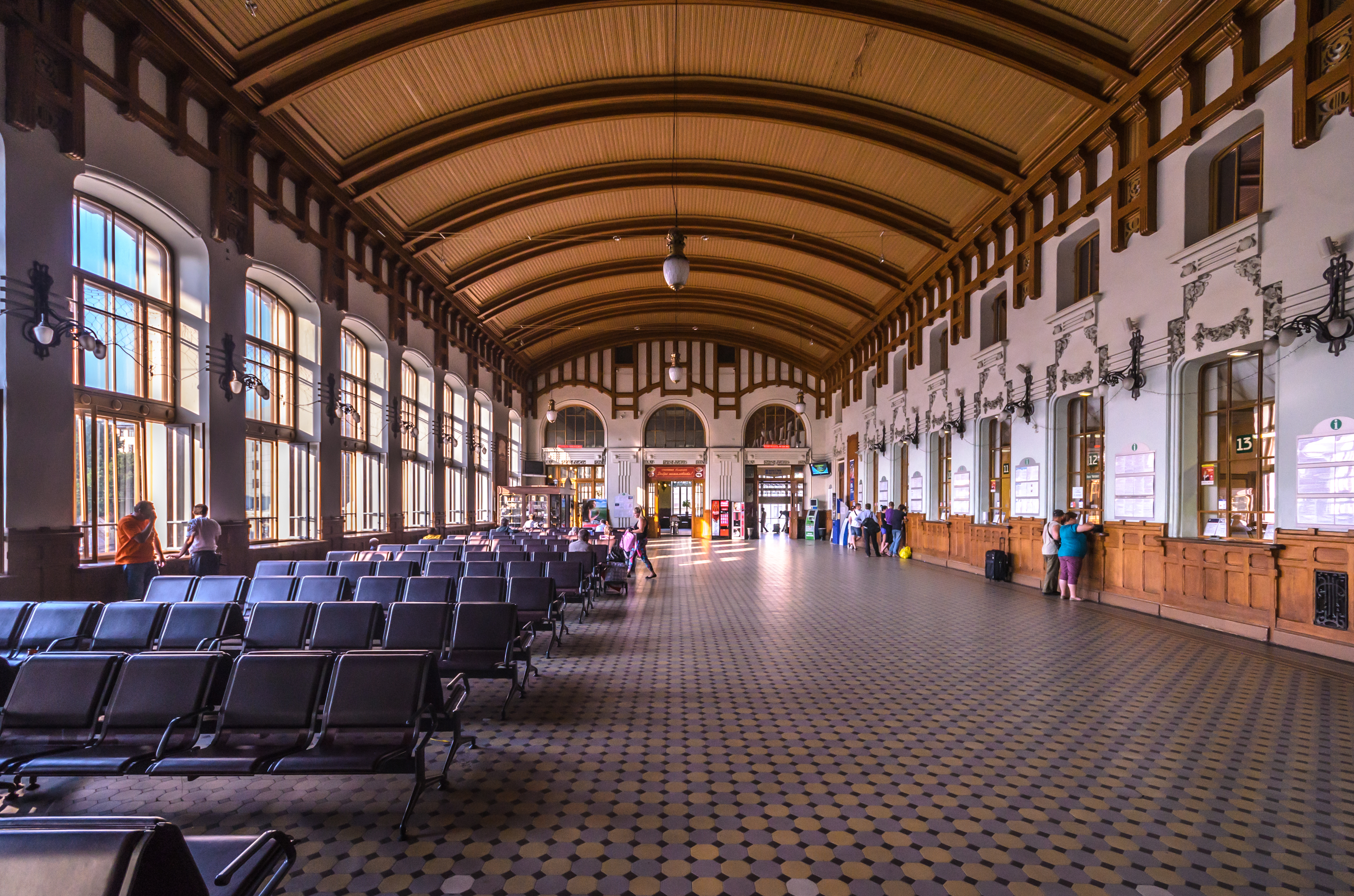 Vitebsky Rail Terminal in Saint Petersburg, Tickets and Waiting Hall